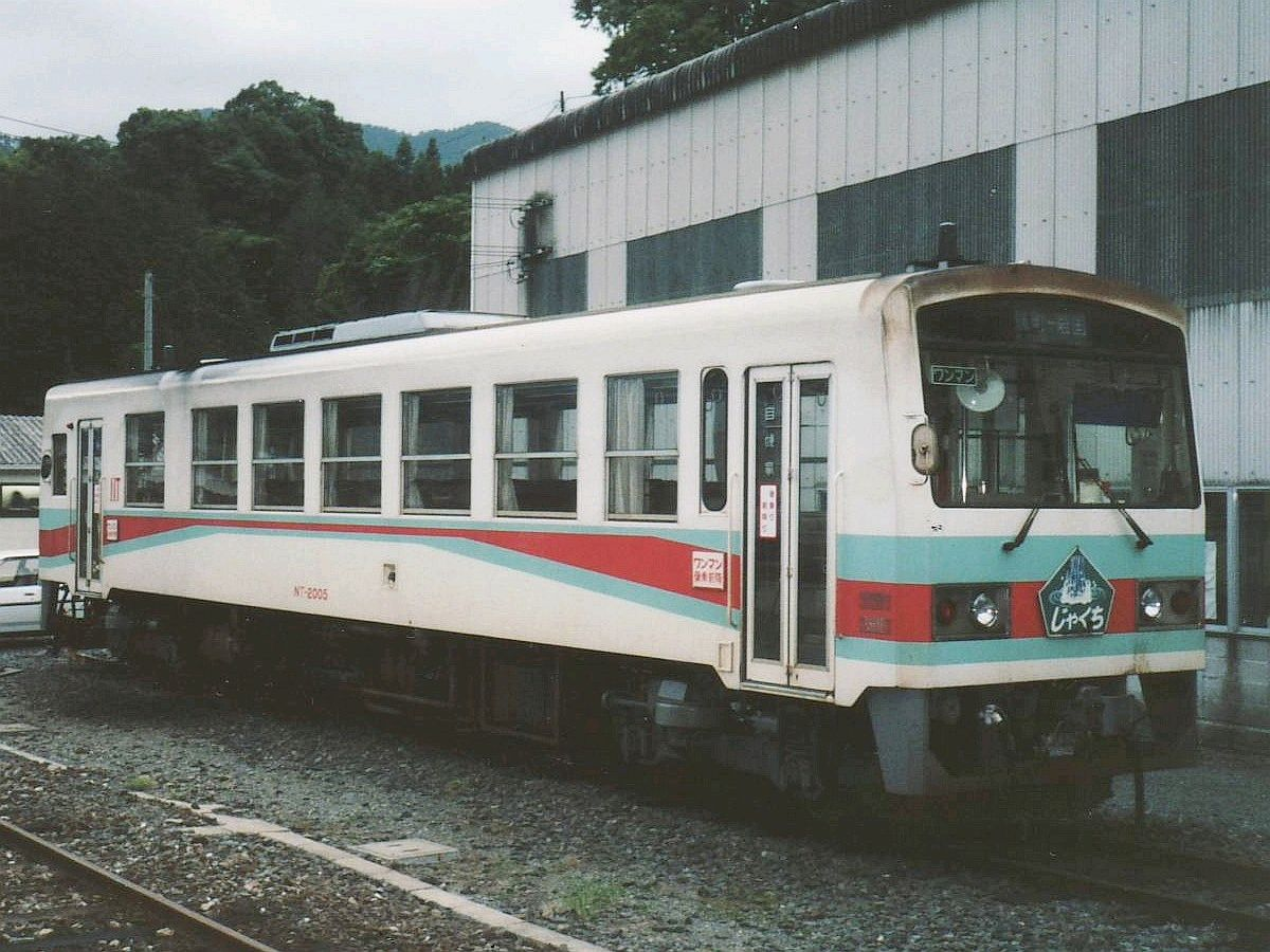 Nishikigawa Railway DMU NT2005